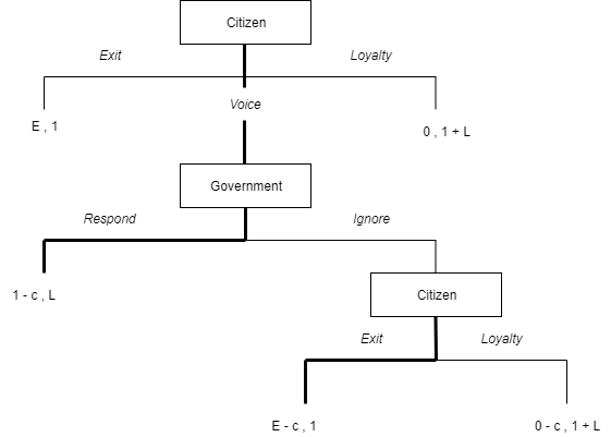 made using draw.io